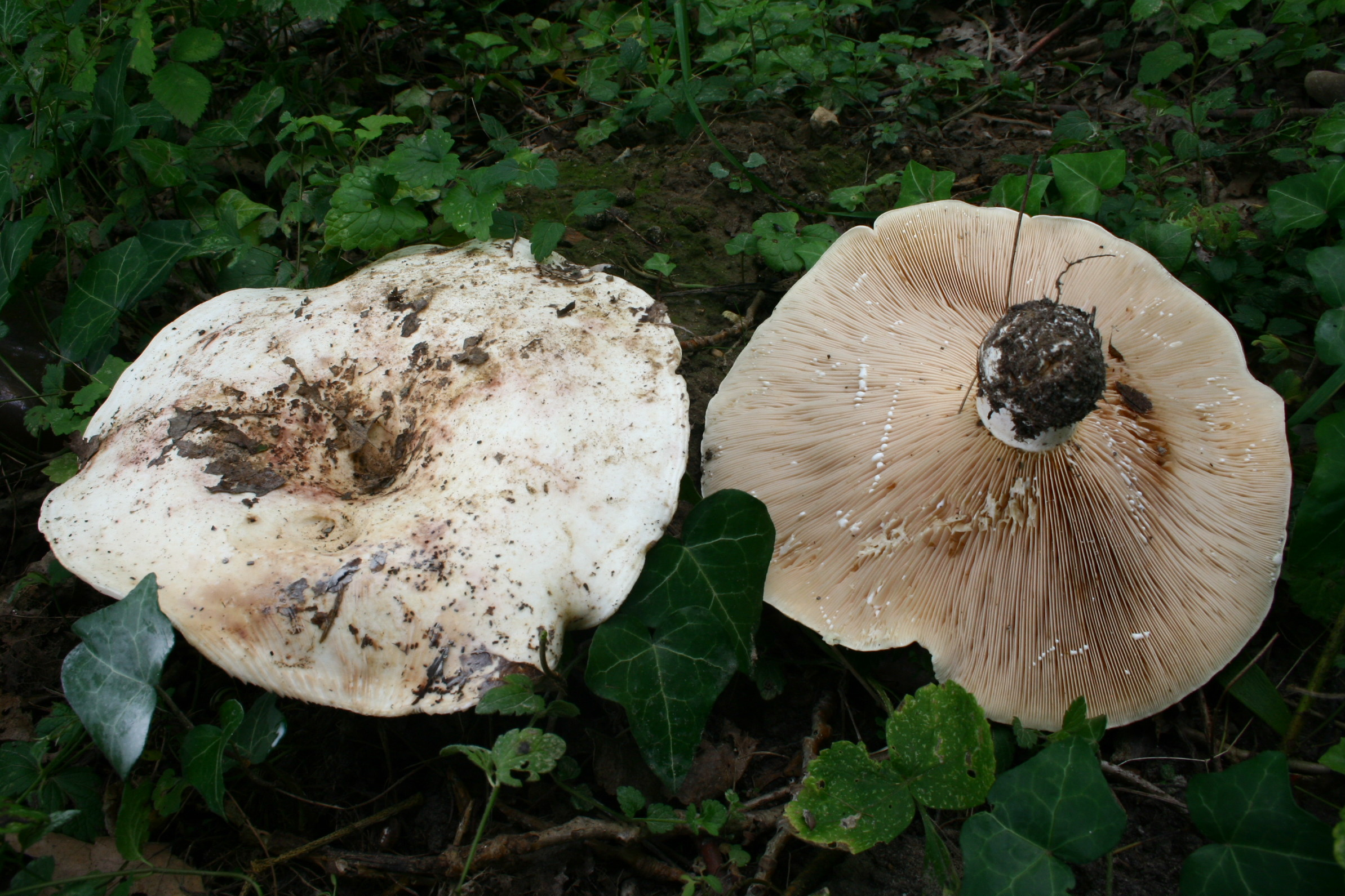 Lactarius controversus in a wood near Saint Chéron, France.